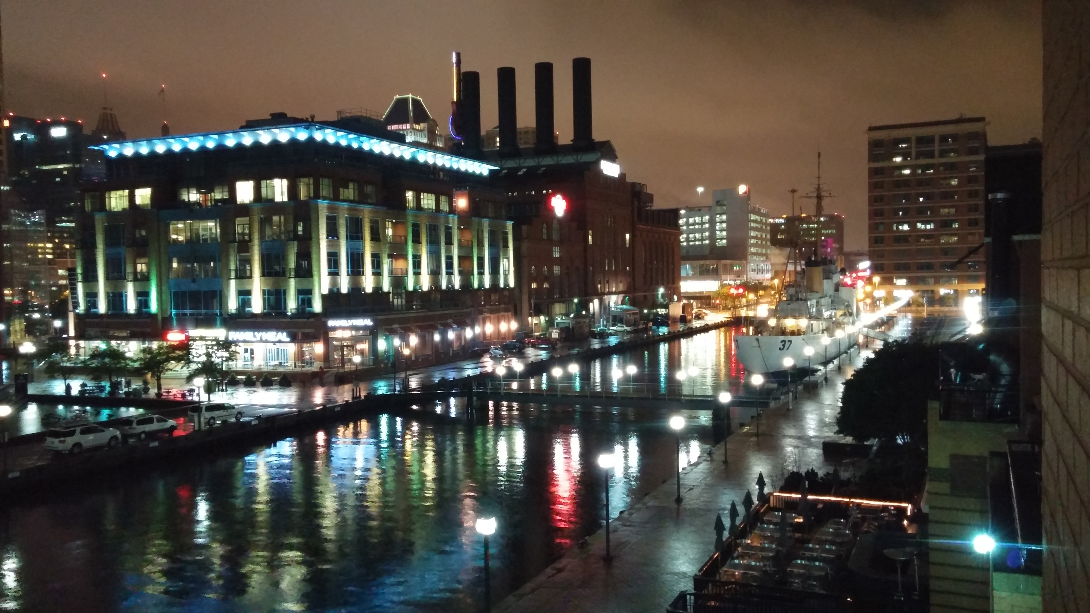 Pier 5 and the Power Plant Building in SE Baltimore by D Ramey Logan